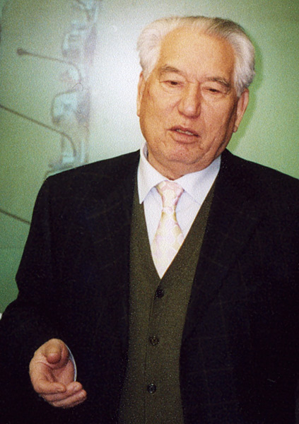 Kyrgyz writer Chinghiz Aitmatov